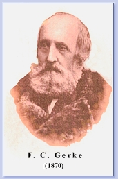 Picture of Friedrich Clemens Gerke, 1801 - 1888